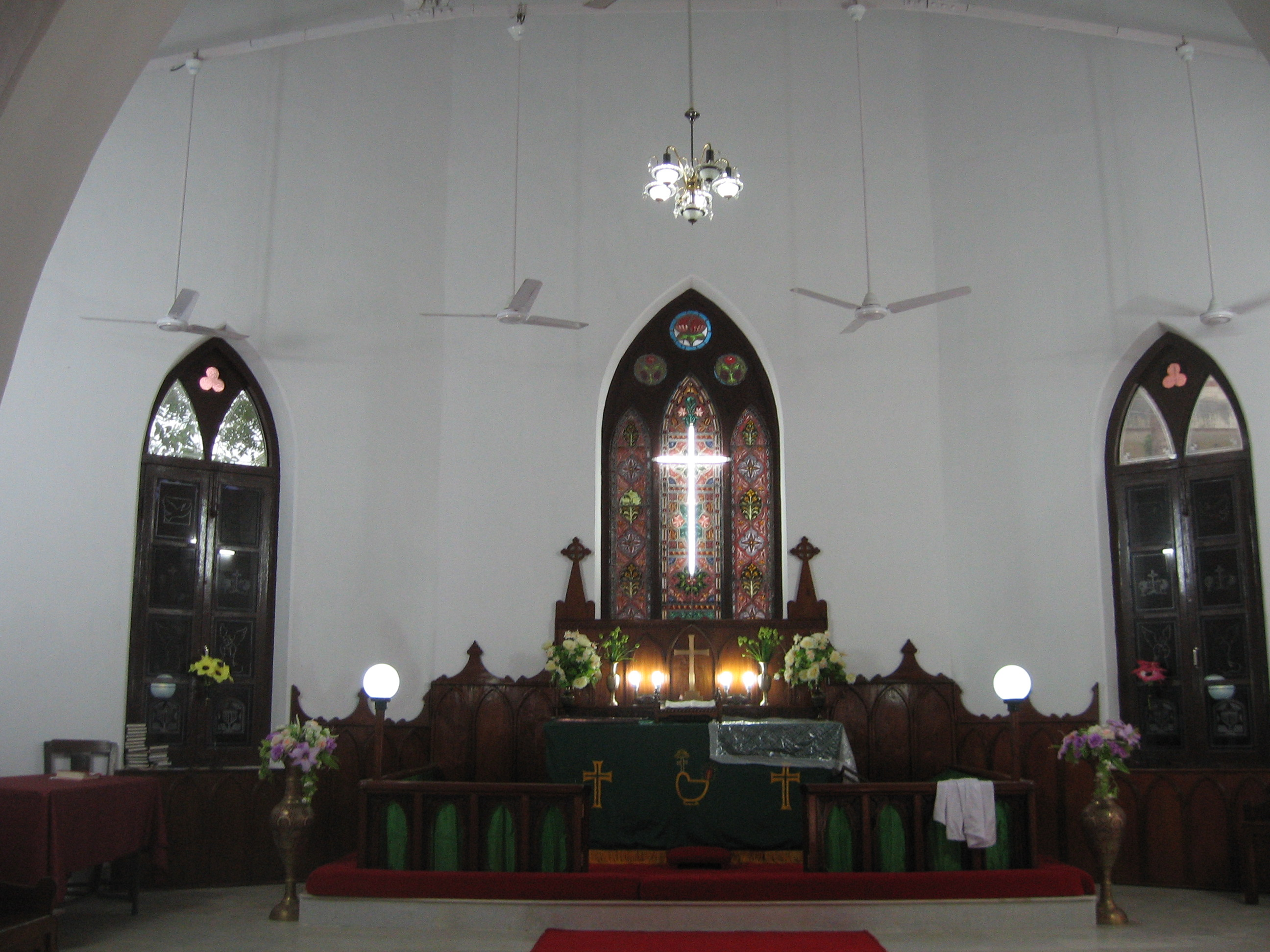 own work